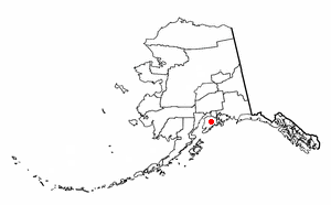 Adapted from Wikipedia's AK borough maps by Seth Ilys.